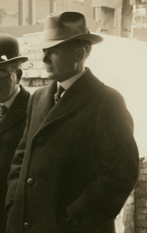 "Nine overcoated and hatted men in framed building; center man holds cornerstone. Handwritten on mat back: "Laying of cornerstone of public library, Woodward at Kirby. Nov. 1, 1917. Left to right: Edward Piggins, Paul R. Gray, Ralph Phelps, Dr. J.B. Kennedy, Mayor Marx, Samuel Mumford, Bernard Ginsburg, Adam Strohm.""